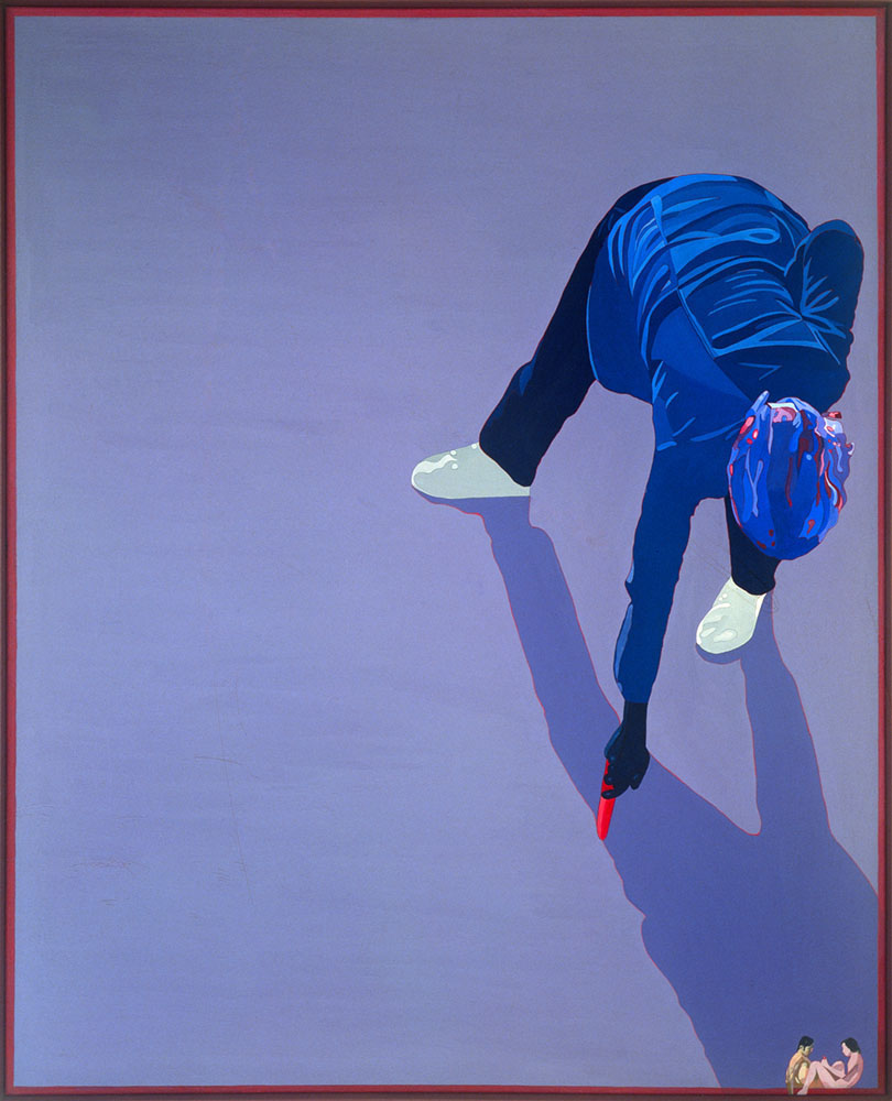 Ewa Kuryluk, “Outlining my Shadow” (1978), acrylic on canvas, 150x120 cm, National Museum, Poznań, photograph by David Henry.